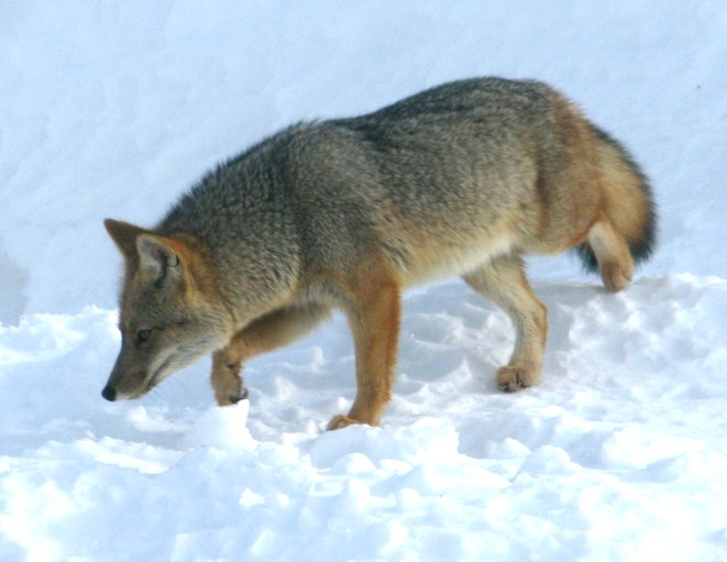 Lycalopex culpaeus lycoides in Ushuaia, Argentina.